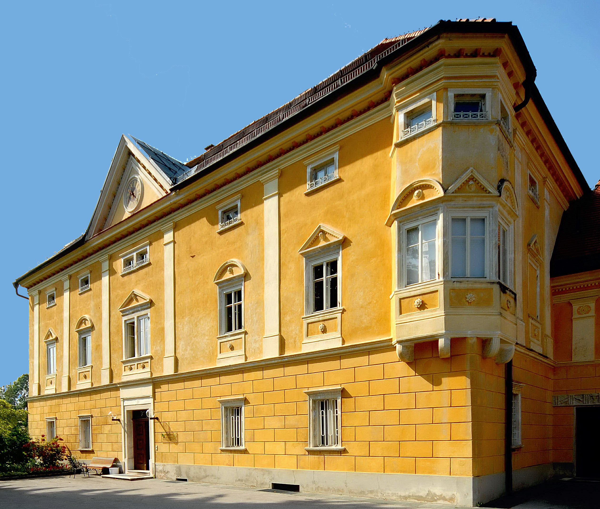 Castle “Pitzelstaetten” in the 14th district “Wölfnitz” of the Carinthian capital Klagenfurt on the Lake Woerth, Carinthia, Austria